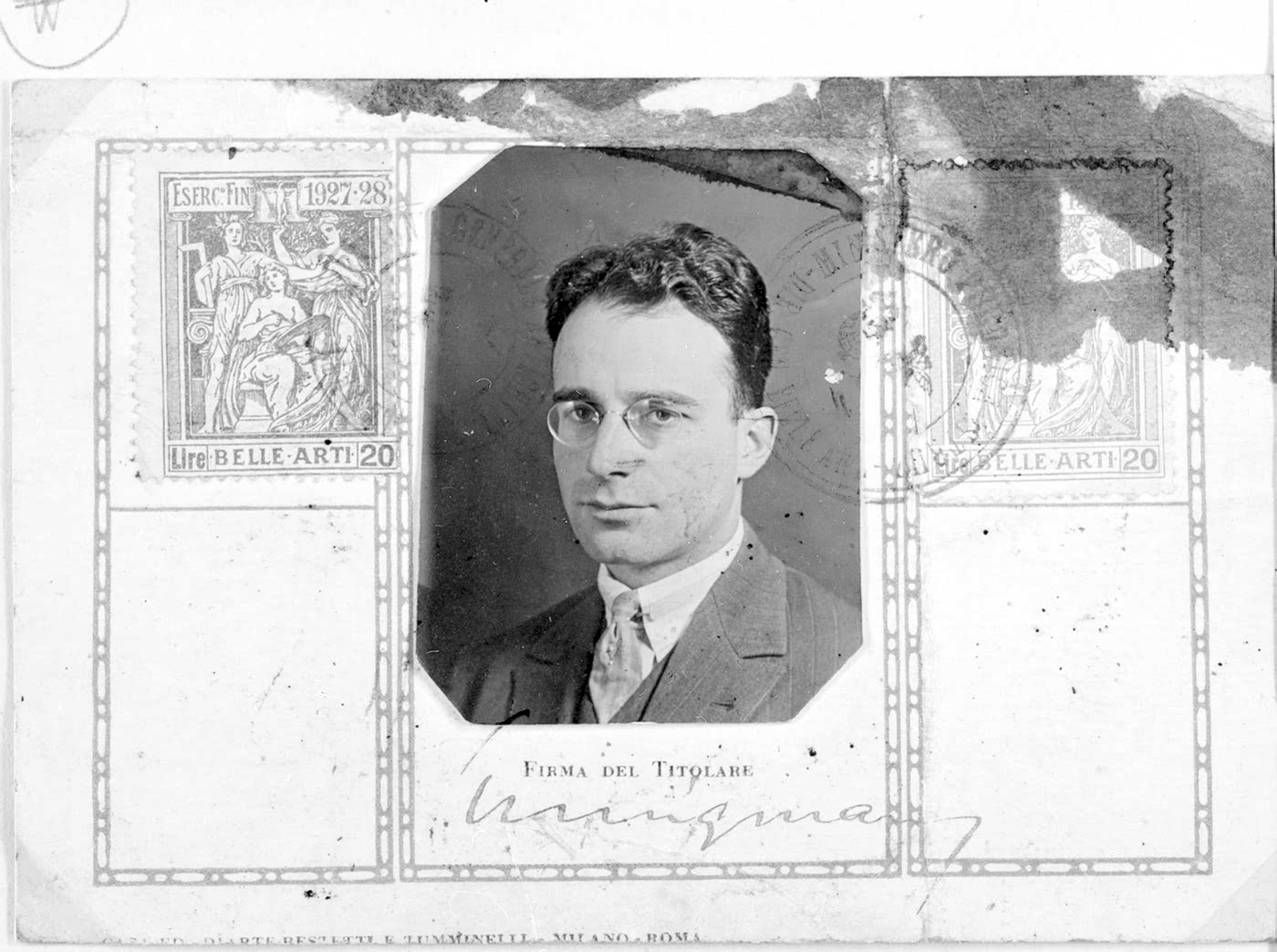 Italian museum passport with photo of artist Kurt Seligmann (1900-1962). 4x5 black-and-white negative. Yale Collection of American Literature, Beinecke Rare Book and Manuscript Library, Yale University, New Haven, Connecticut.